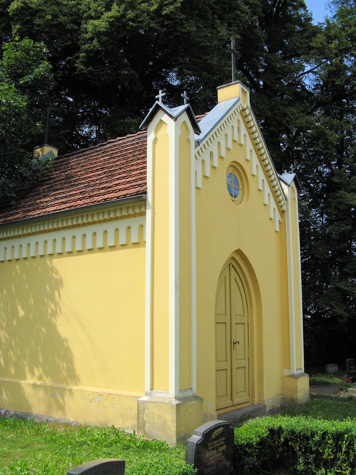 Chapel in Walow, disctrict Müritz, Mecklenburg-Vorpommern, Germany